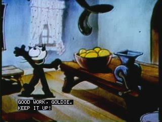 Still frame from a Closed Captioning demonstration utilyzing the Felix the Cat cartoon "The Goose that Laid the Golden Egg". This image is a still frame captured from the video file "Closed Caption Demonstration 512k-Felix.ogg", which was also edited by the uploader Torindkflt. The original cartoon was freely downloaded from the Internet Archive at [1]. The captioning was created and manually added by myself utilizing the graphics editing programs Jasc Paint Shop Pro and Jasc Animation Shop. The still frame was captured from the closed captioning demonstration video using the open source video player ffplay and saved using Jasc Paint Shop Pro.